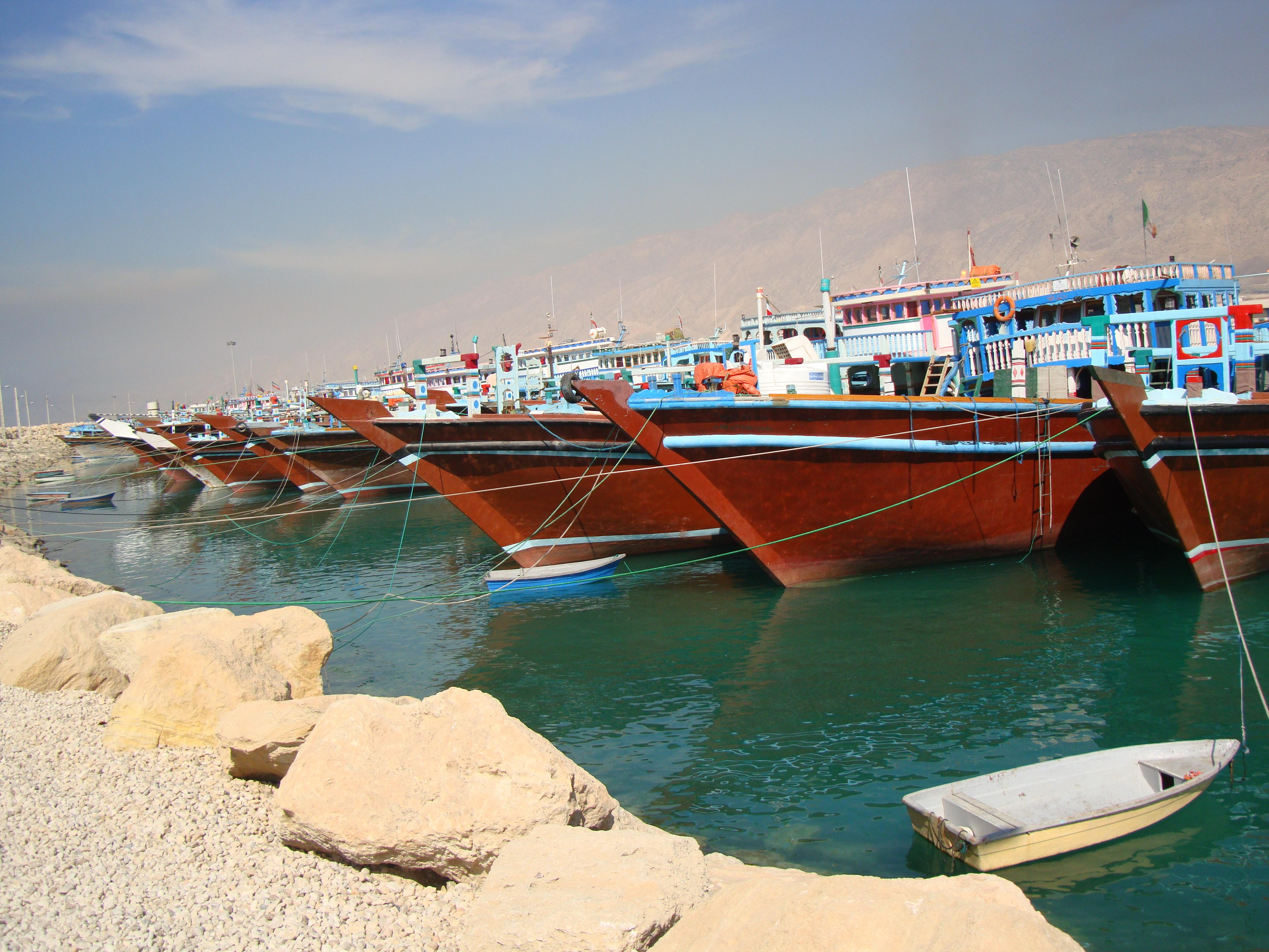 nakhl